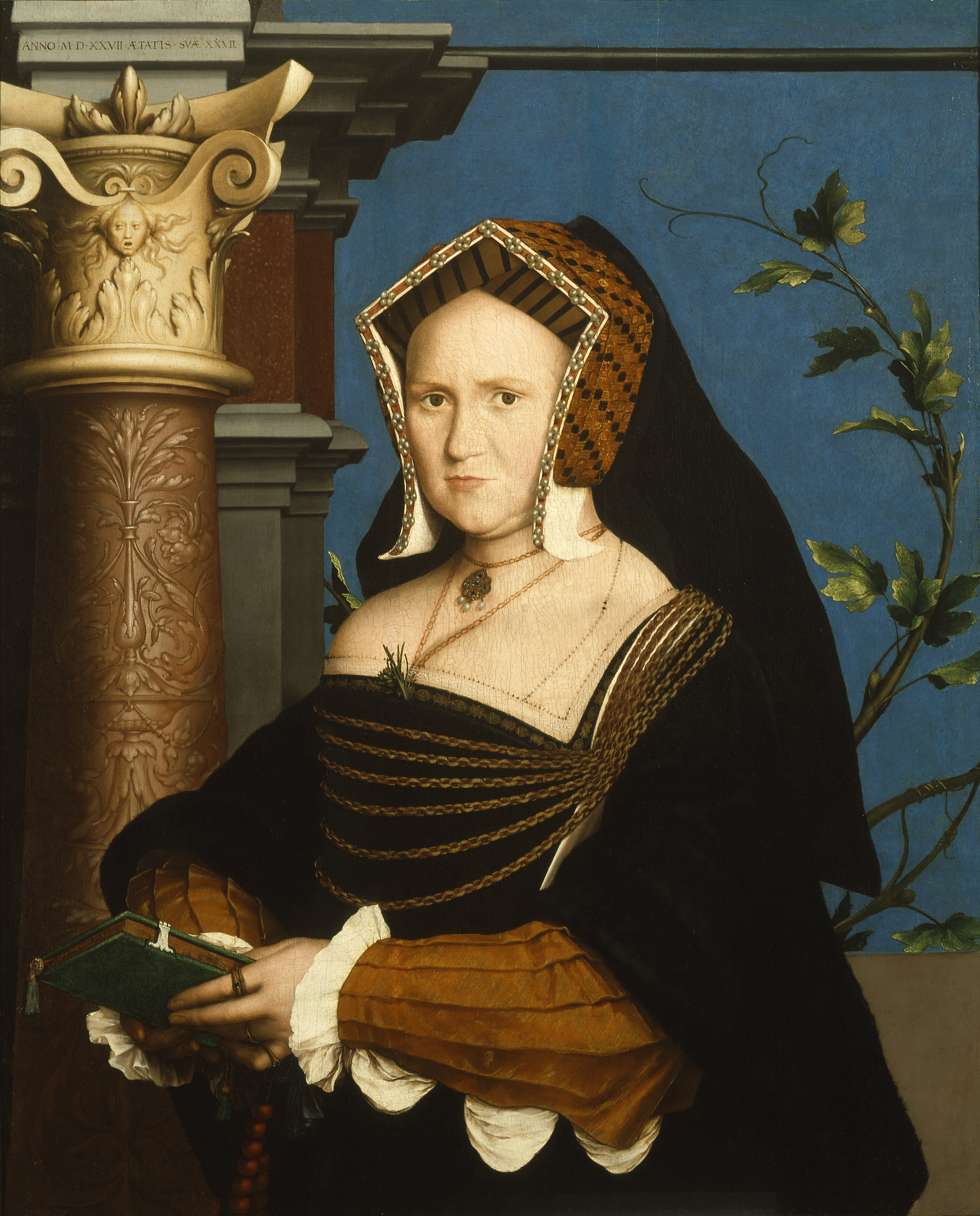 Hans Holbein the Younger, Mary, Lady Guildford, 1527, oil on panel, 87.0 × 70.6 cm (Saint Louis Art Museum)